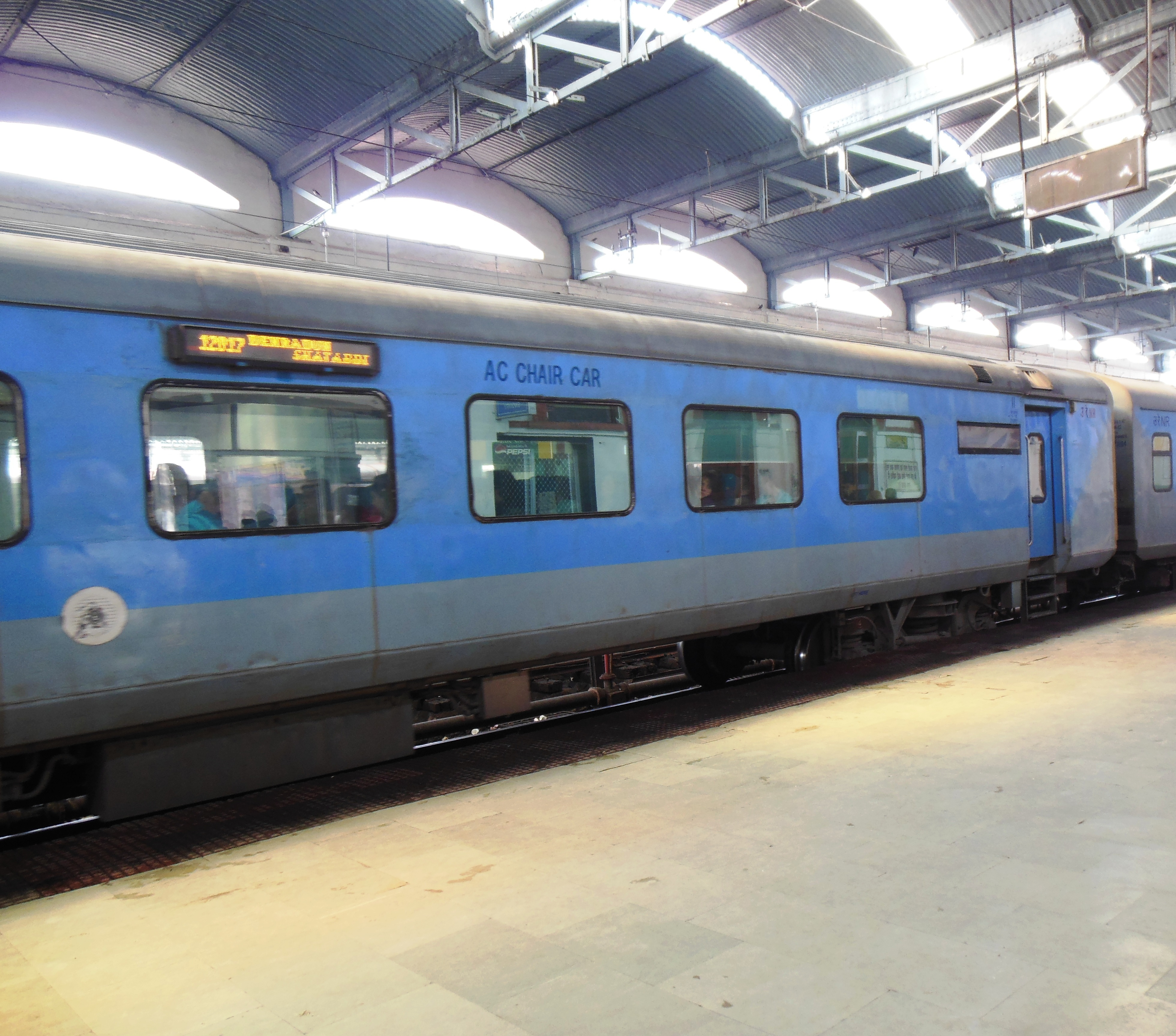 LHB Coach of 12017 New Delhi Dehradun Shatabdi Express